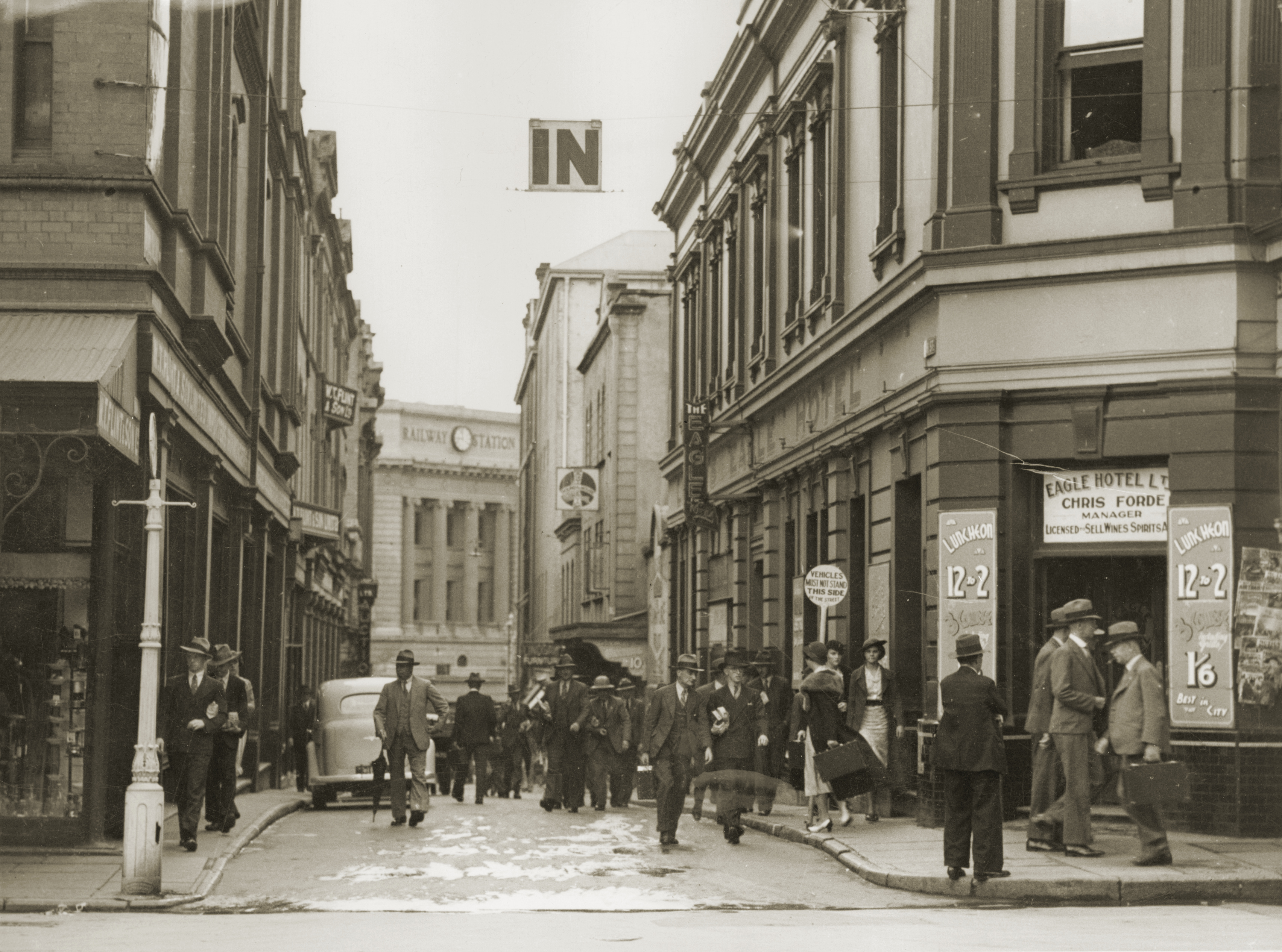 Bank Street, looking North from Hindley Street, February 1937 showing pedestrian traffic moving to and from the Adelaide Railway Station which can be seen in the distance. The Eagle Hotel, on the corner of Bank Street and Hindley Street is offering three course luncheons for one shilling and six pence.